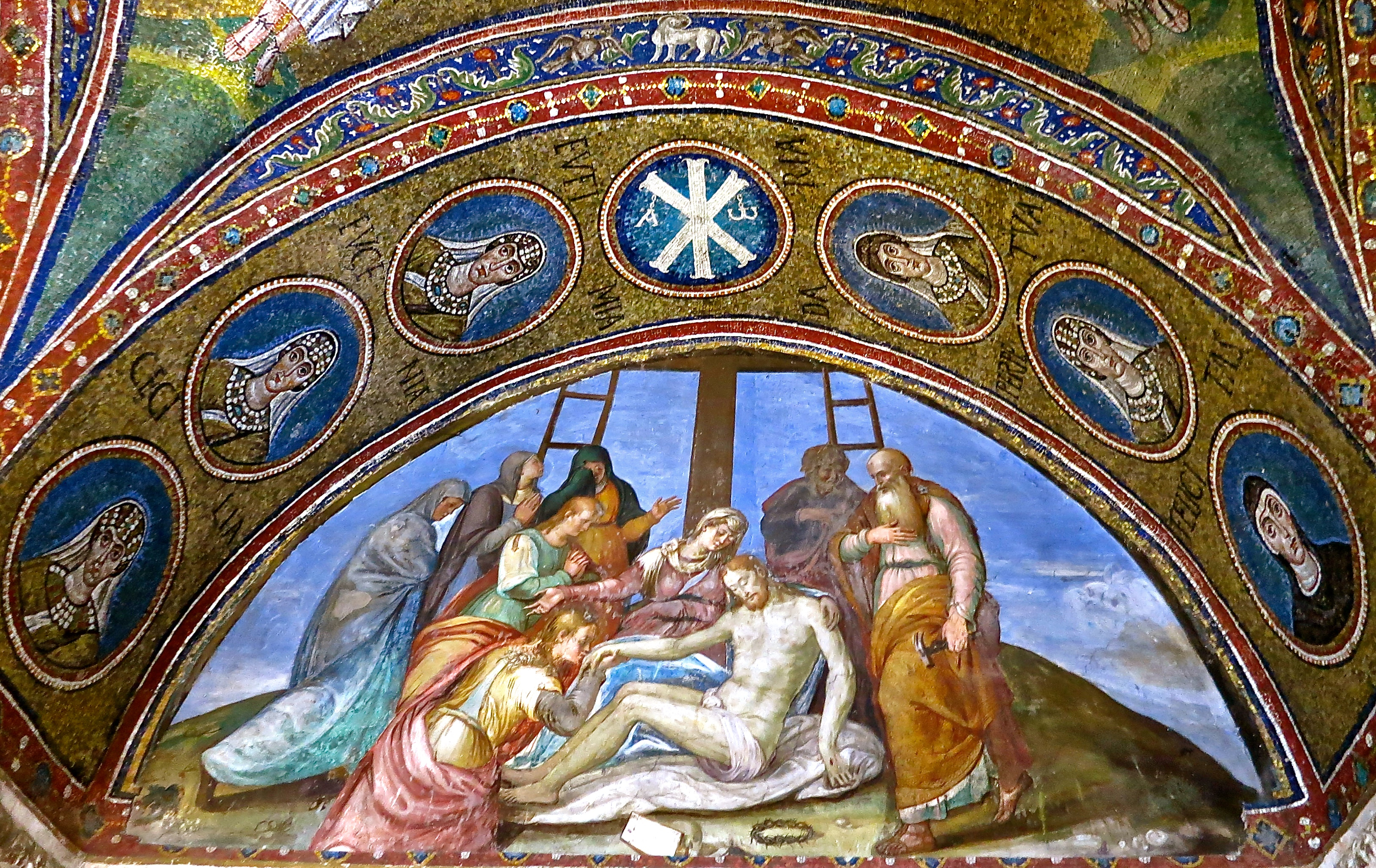 Above the mural are the monogram of Christ and four female saints, 6th century mosaic.